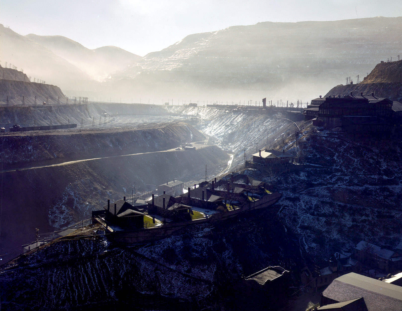 American Smelting and Refining, Garfield, Utah